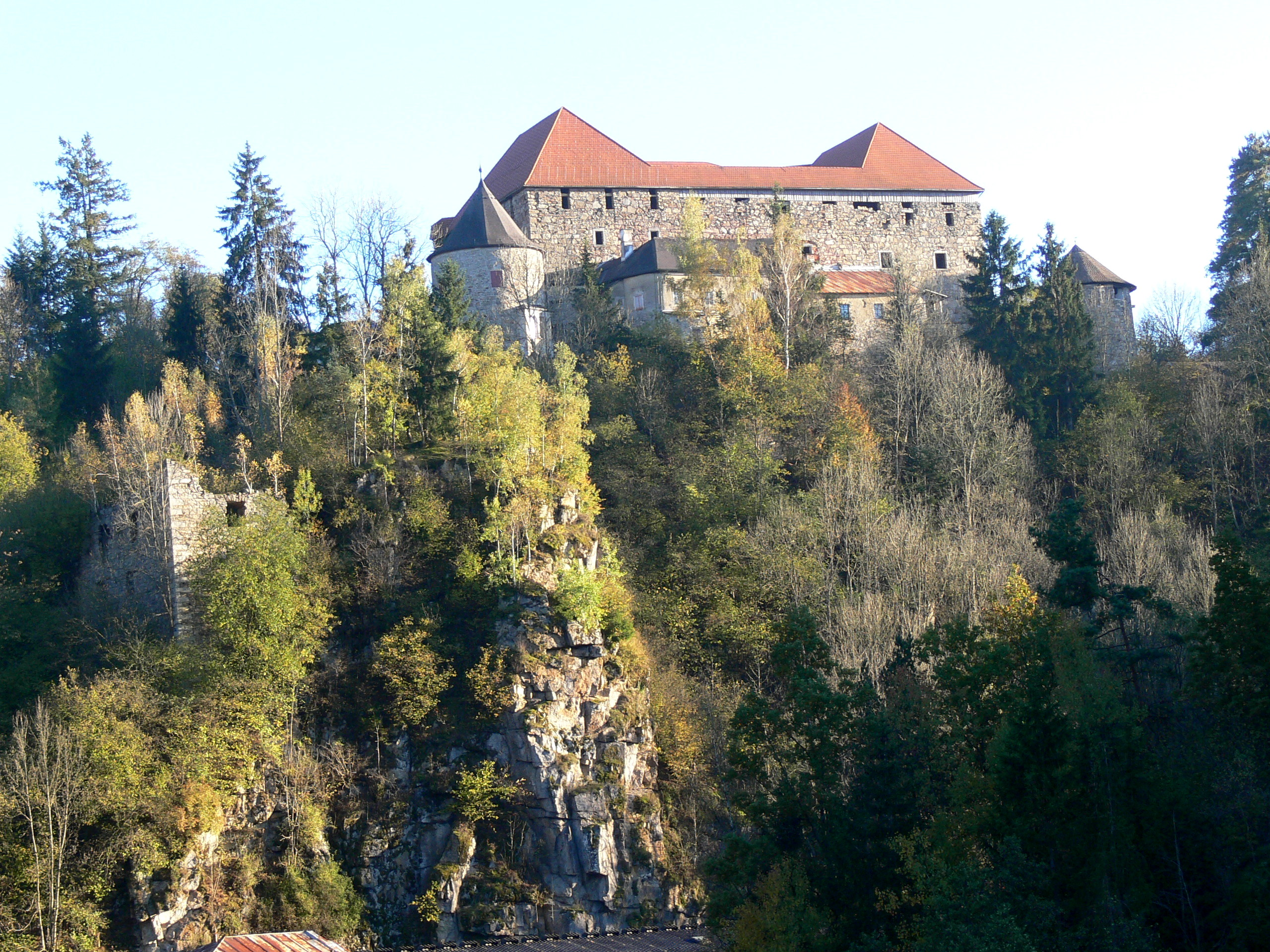 Pürnstein castle ( Upper Austria ).